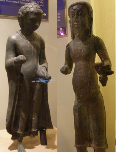 Photo of Buddha statues of Gangga Negara - GanggaNegaraStatue002.jpg